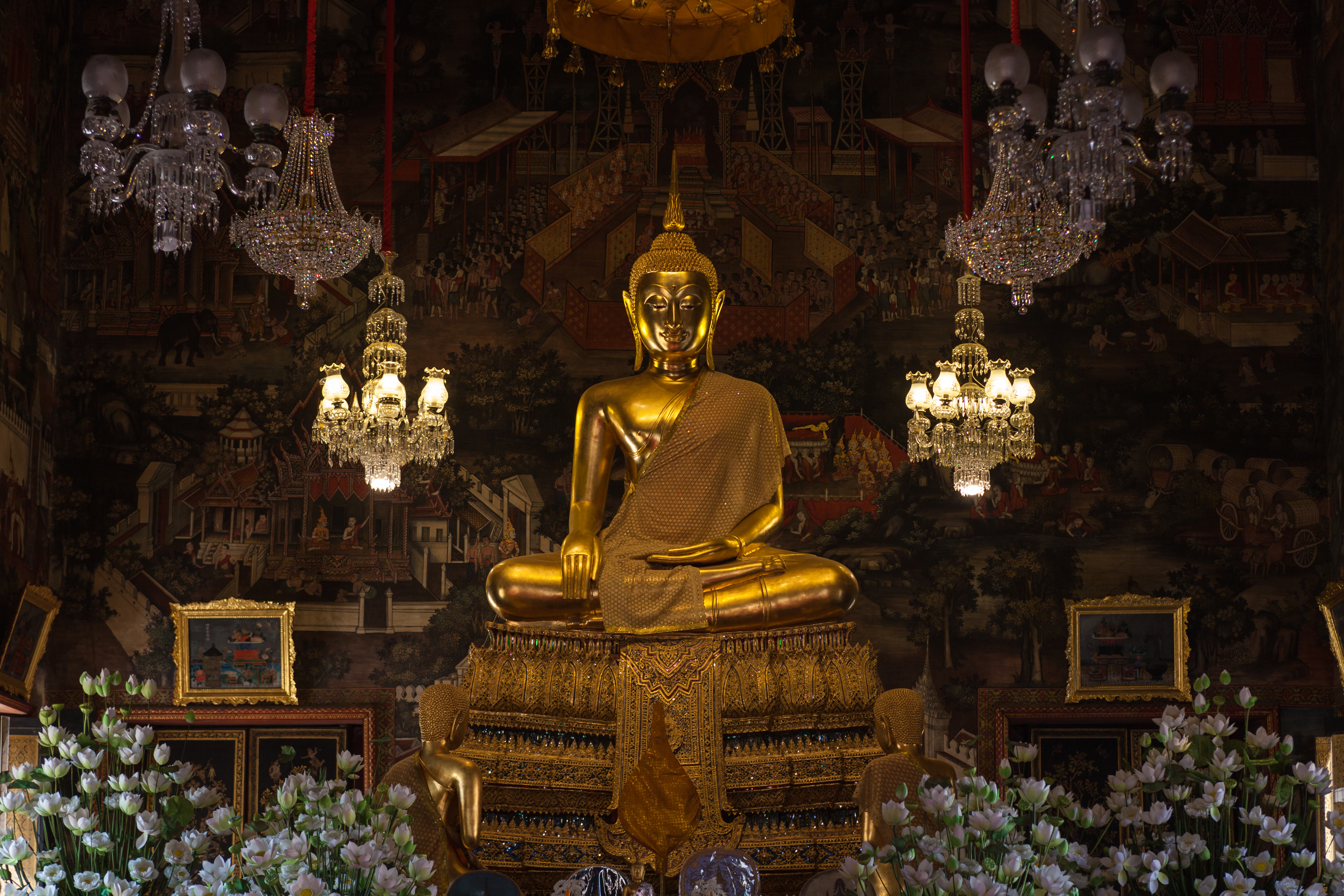 Buddha image called "Phra Buddha Misarach Roka That Di Rok" in the Ubosot of Wat Arun, Bangkok.